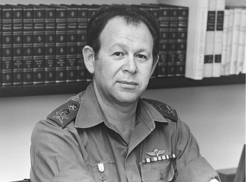 10th IDF Chief of Staff Mordechai "Motta" Gur headed his squad to capture the Old City of Jerusalem during the Six Day War in 1967. After the capture, he shouted, "The Temple Mount is in our hands!"